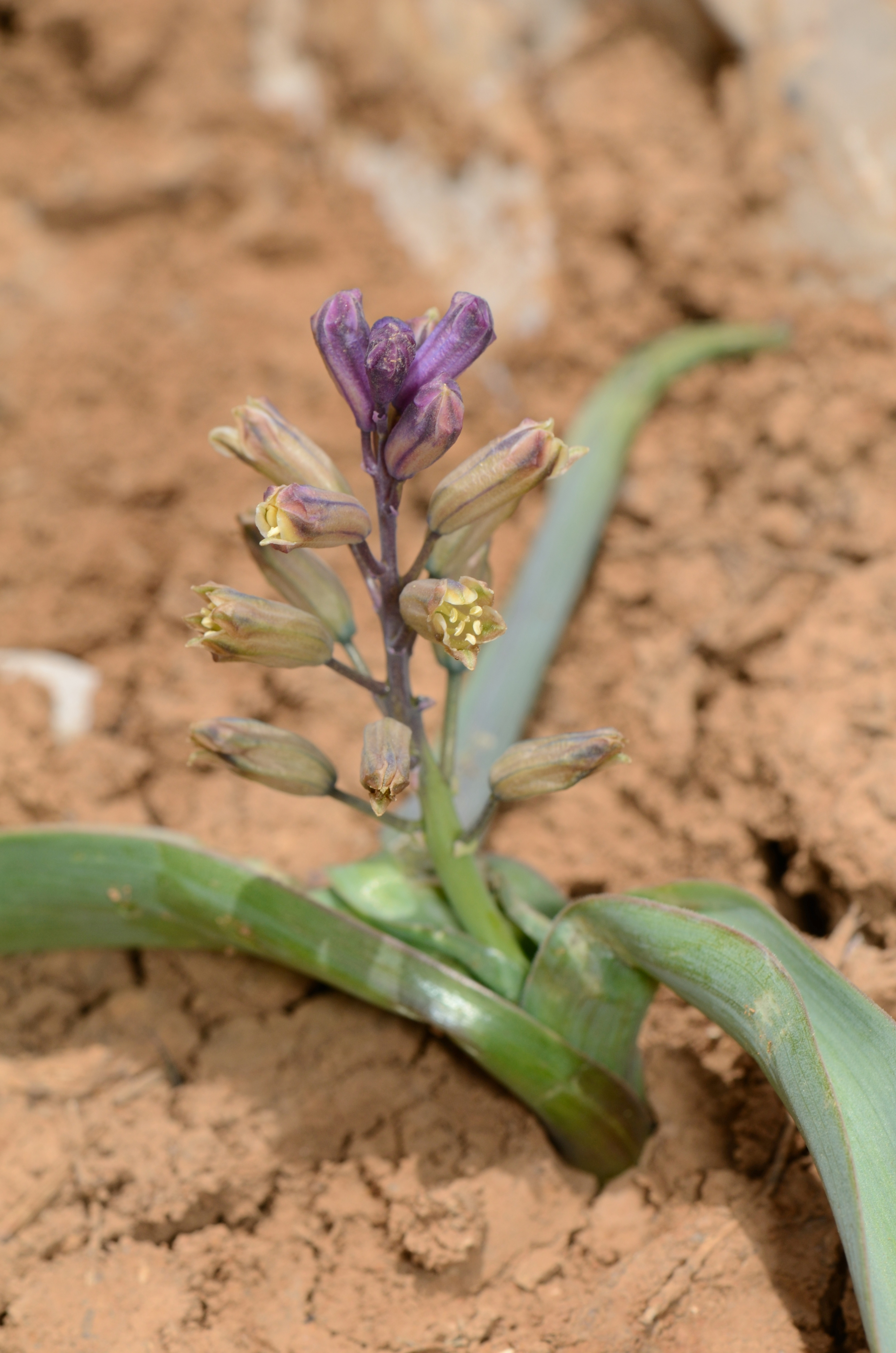 Bellevalia hermonis Mouterde, Har Habushit, Mount Hermon, Golan Heights, May 25, 2012.